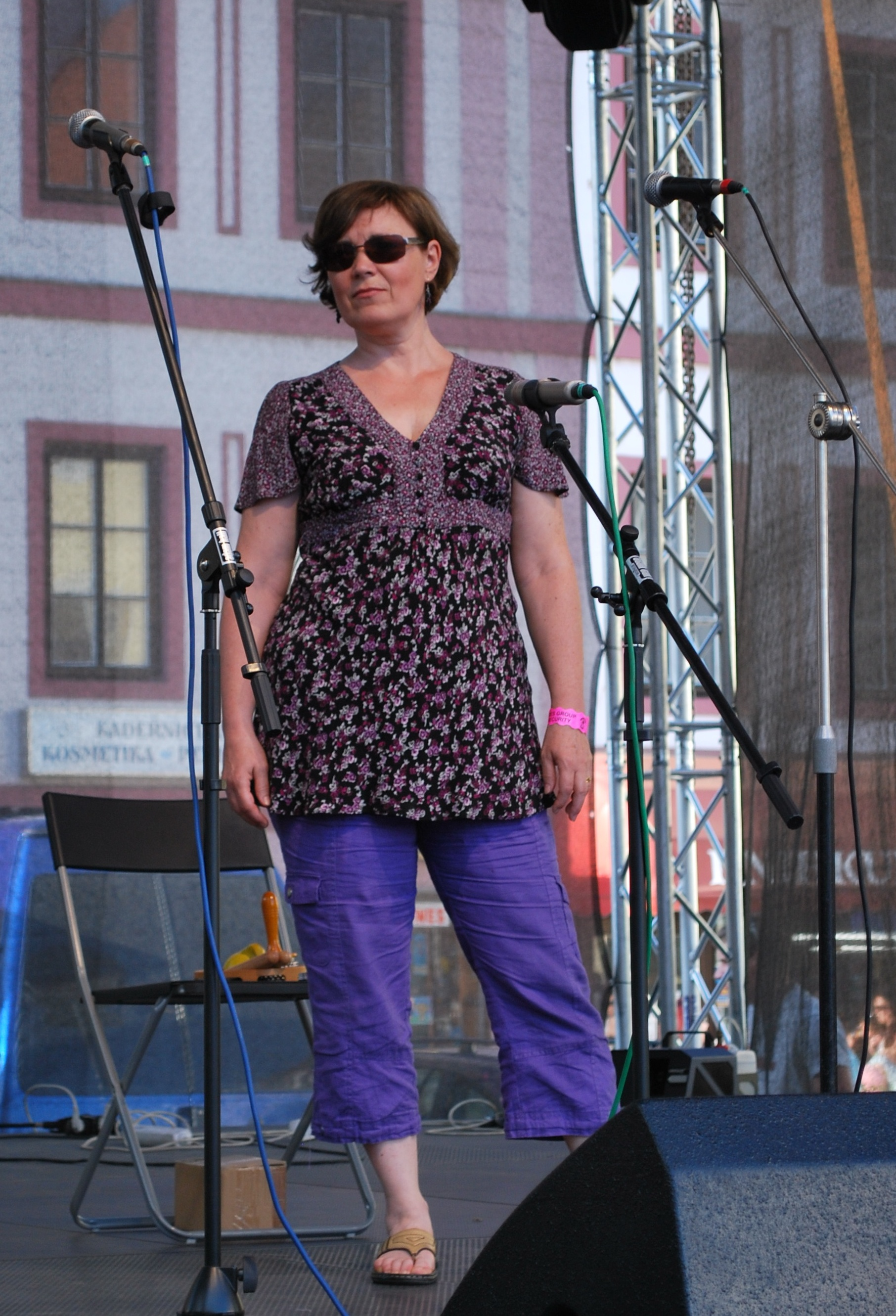 Zdenka Tichotová, member of czech music grupe Spiritual kvintet during concert in Písek town, Czech Republic.